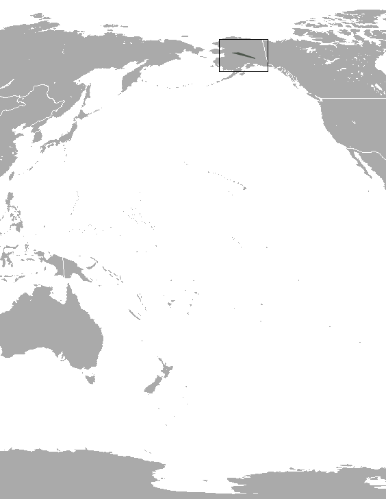 Alaska Tiny Shrew (Sorex yukonicus) range, with national borders added